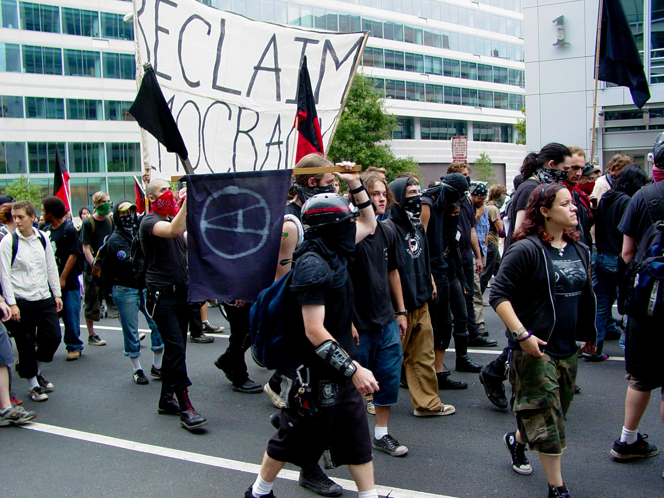 Black Bloc breakaway march. From the September 24, 2005 anti-war protest in Washington DC. Source: The Schumin Web, September 24 Protests